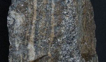 Migmatite, Bystrá Valley, Nízke Tatry Mts. (Western Carpathians, Slovakia), Veporic Unit.